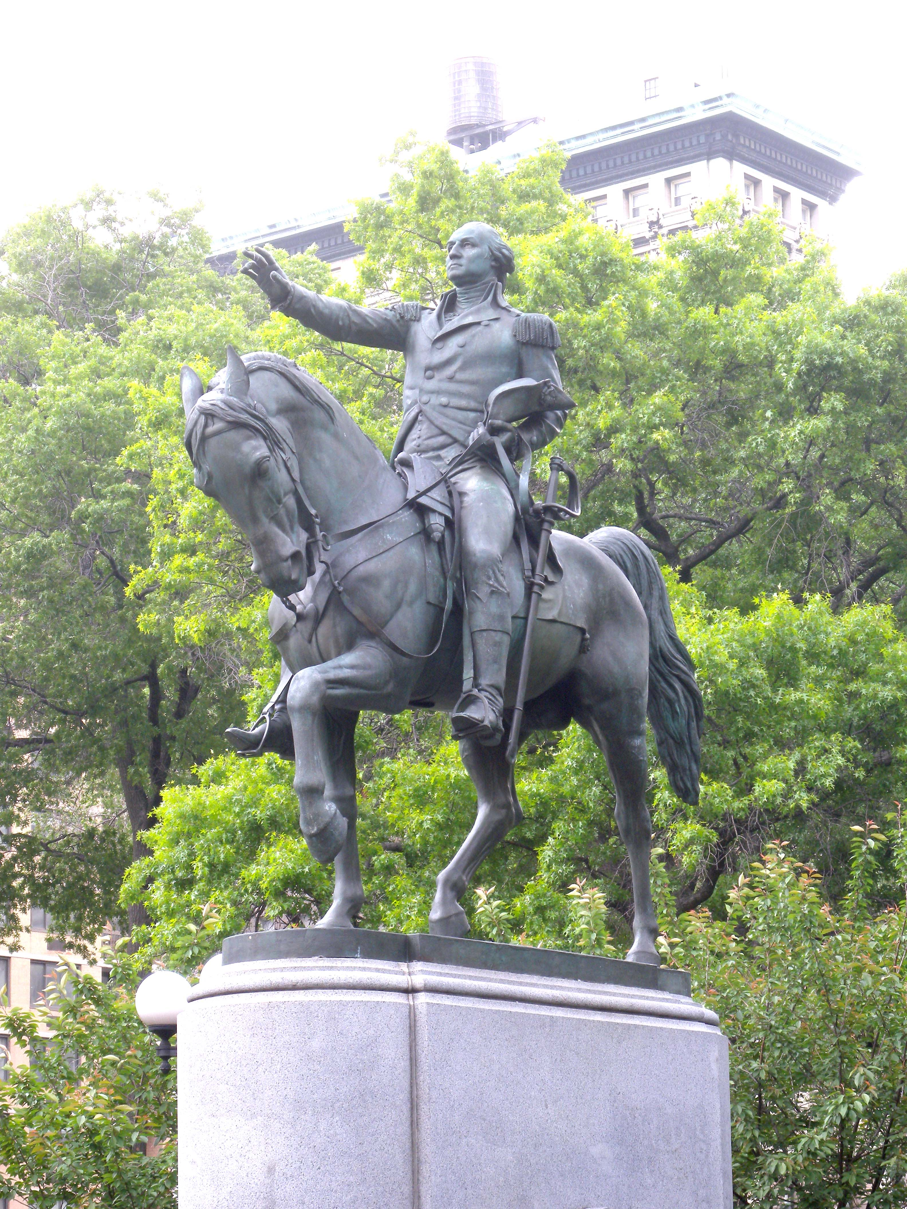 Equestrian George Washington (1856). Looking northwest at statue in Union Square Park, New York City, on a cloudy afternoon.